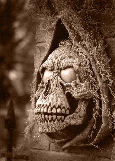 My sculpture of the character DEATH from Discworld. The eyes pulsate blue and the jaw is articulated.DEATH